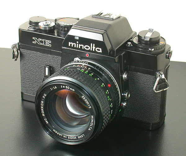 Minolta XE w/50mmF1.4